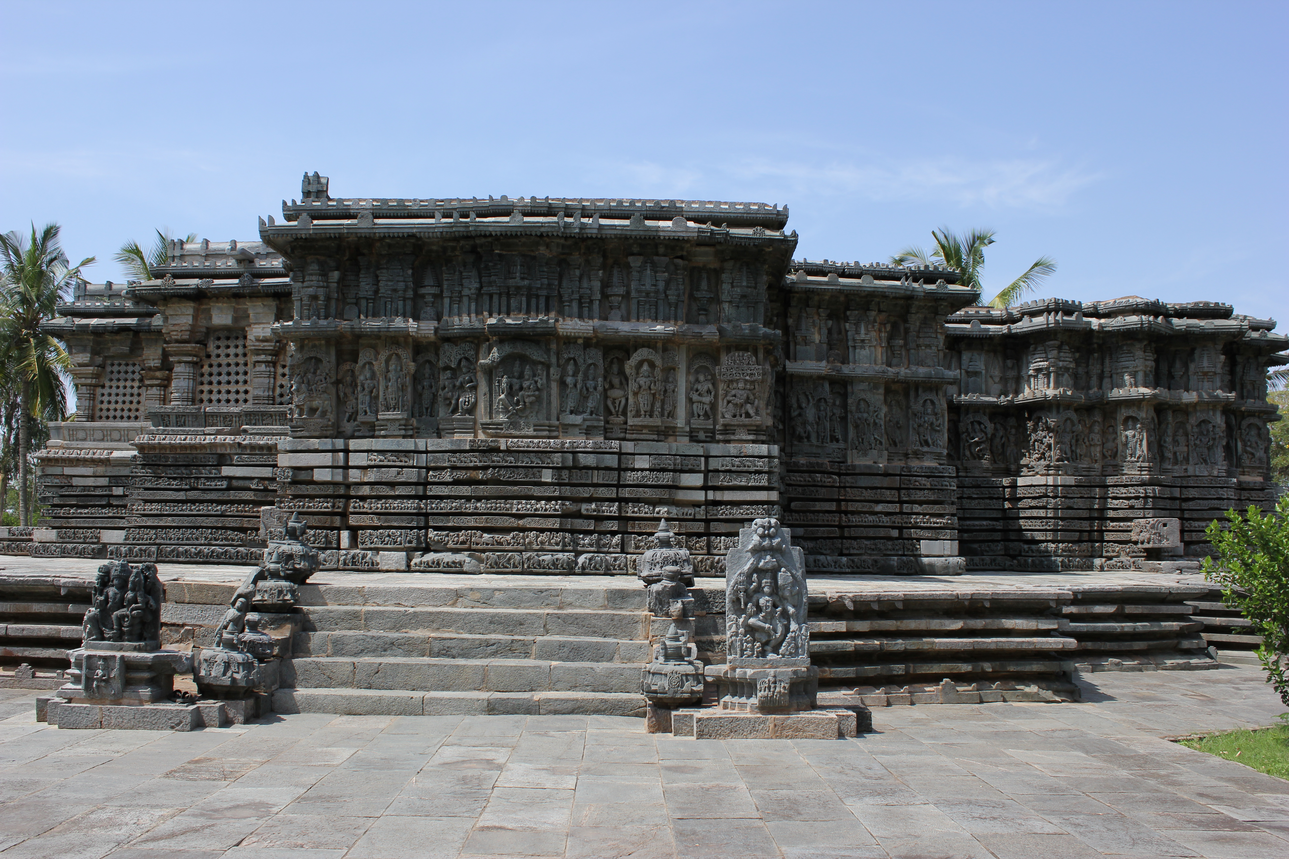 This photograph was taken at the Kedareshwara Temple (also spelt "Kedaresvara" or "Kedareshvara") in Halebidu, in the Hassan district of Karnataka state, India. The temple was constructed by Hoysala King Veera Ballala II (r. 1173-1220 A.D.) and his queen Ketaladevi.